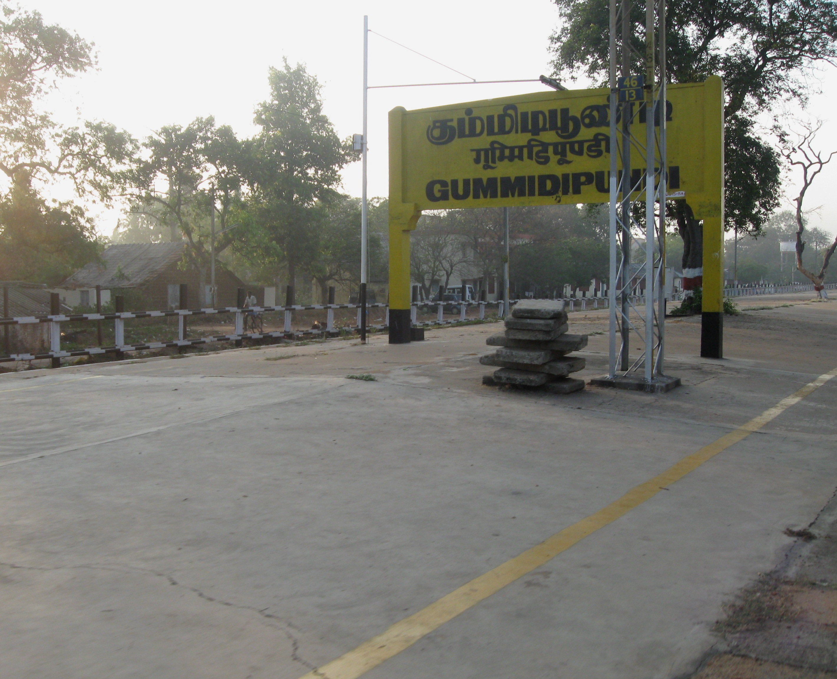 View of Gummidipoondi railway station near Chennai